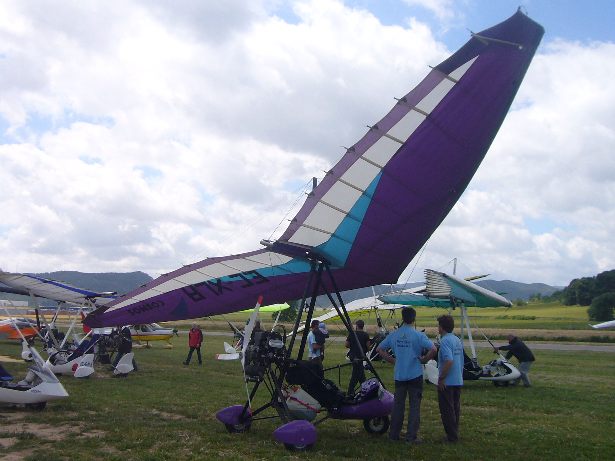 Aerosport 2013 (Igualada)